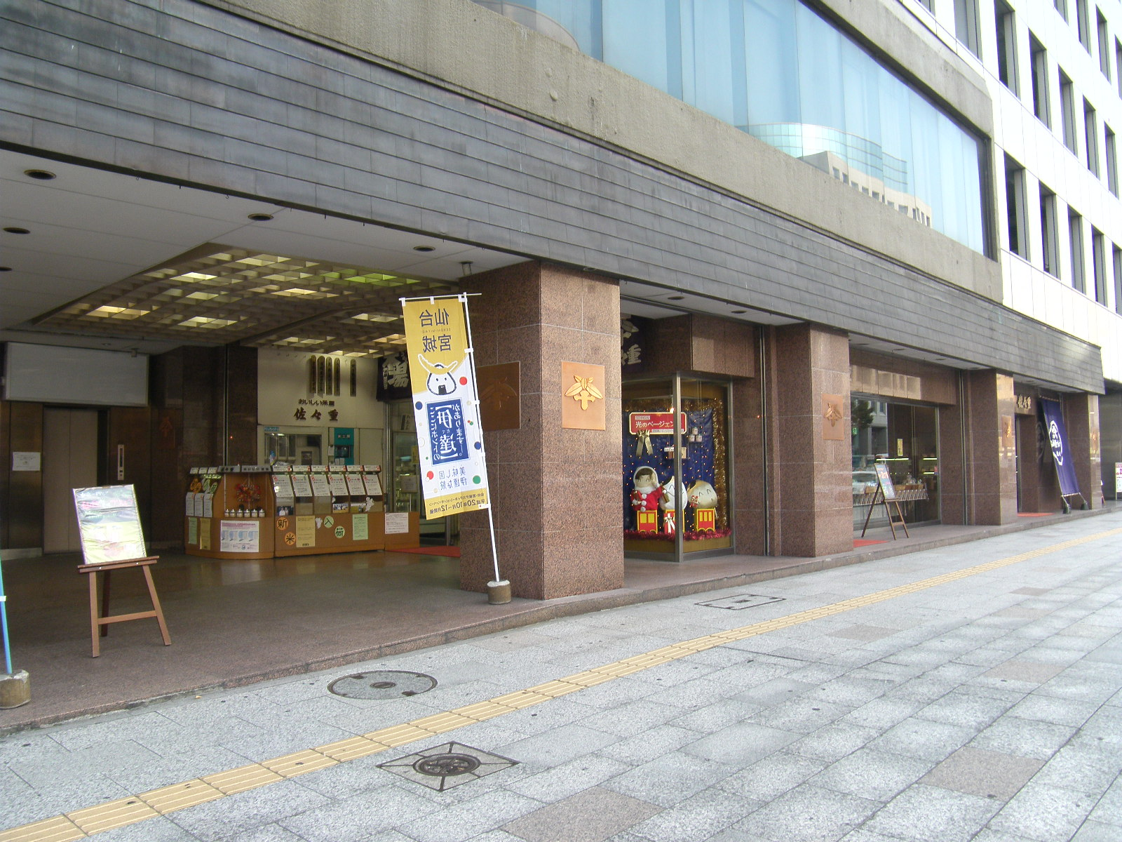 Sasajū shop. The traditional miso shop in Sendai. Ichibanchō 3 chōme, Aoba ward, Sendai, Miyagi prefecture, Japan.